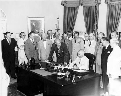 Original caption: “THE WHITE HOUSE - 10 AUGUST 1949. The President signs the "National Security Act Amendments of 1949" with invited guests attending the ceremony in his office” — written below photo Original caption: “ Title: Truman signing National Security Act Amendment of 1949. Description: President Harry S. Truman signing the National Security Act Amendment of 1949 with guests in the Oval Office. Original is oversize. Subjects (ARC): Legislation; Legislators; National security; Offices; Presidents; Rites and ceremonies; Signatures (Writing) Subjects (HST): Truman - Signing - National Security Act Amendment of 1949; National Security Act Amendment of 1949 People: Truman, Harry S., 1884-1972 Accession number: 58-443 Date: August 10, 1949 Restrictions: Unrestricted Physical Size: 8×10 inches (21×26 cm) Color: Black & White Institutional Creator: United States Air Force” —